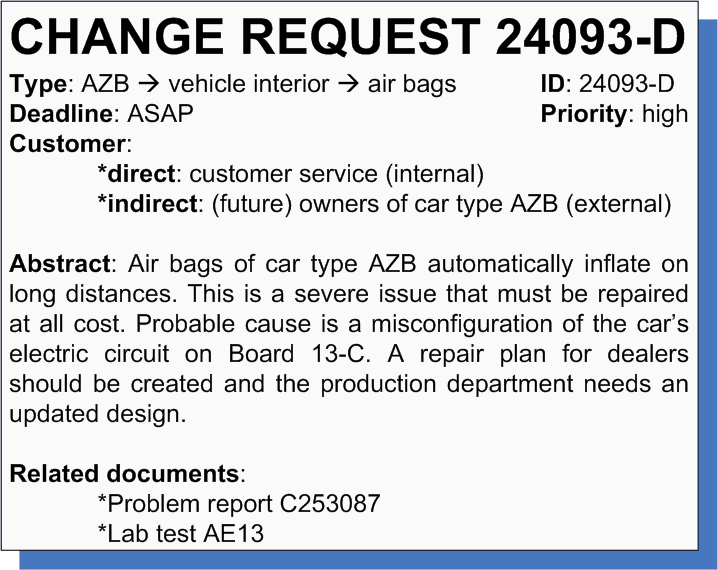 Example change request for the automobile industry. Created by Marijn Plomp; free to use.